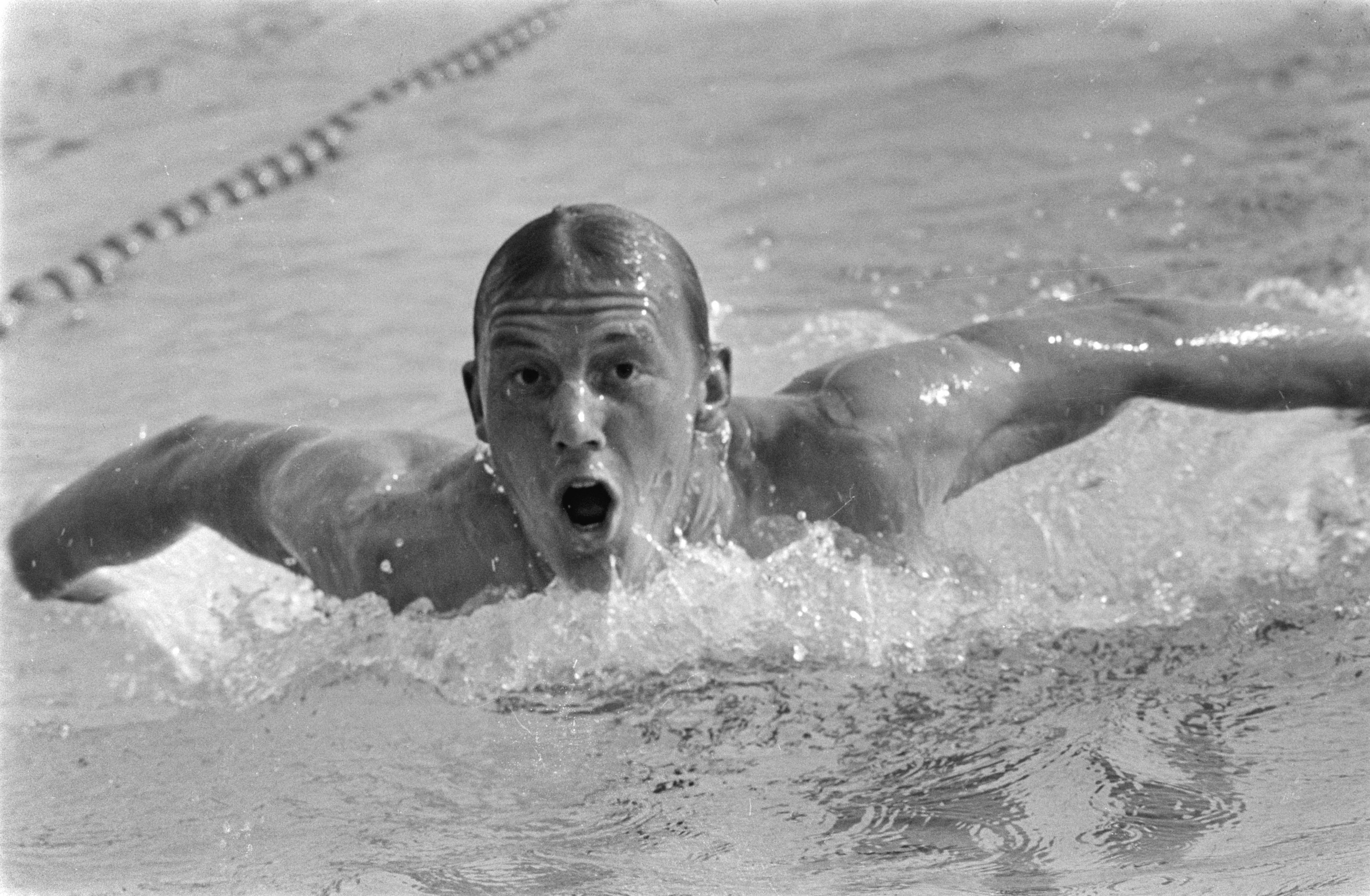 Jan Jiskoot